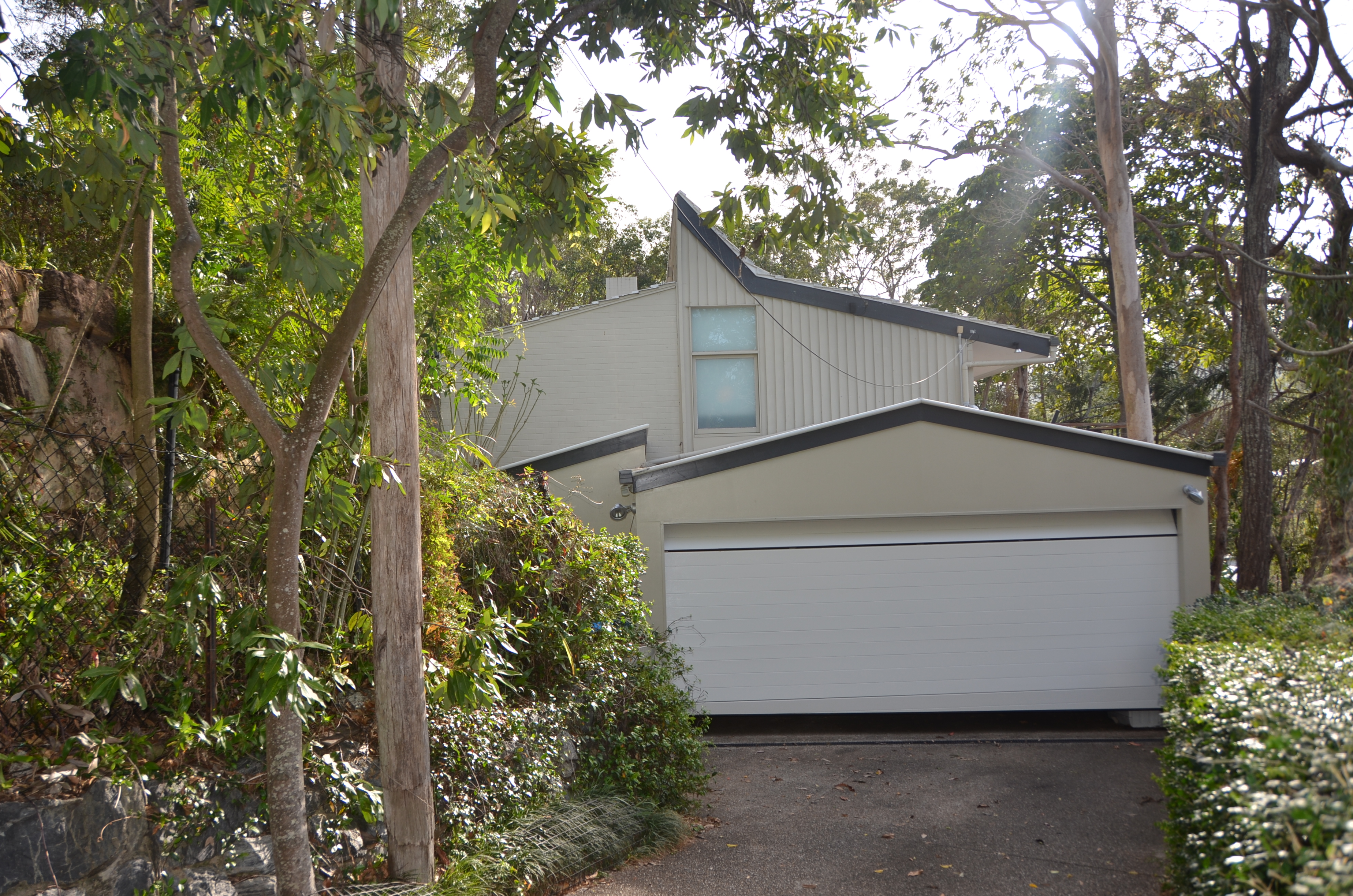 Dalton_GowerStreet_GRaham